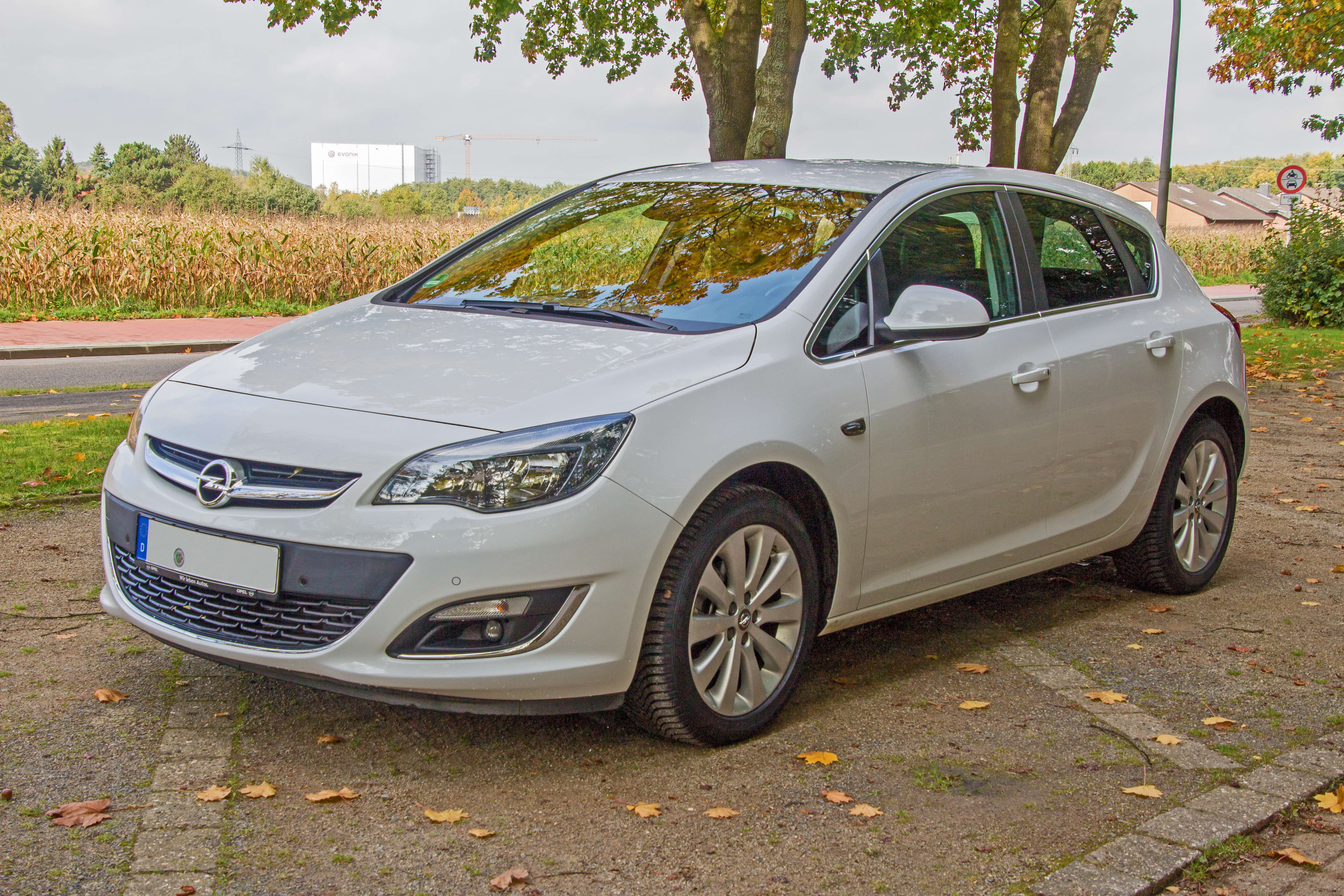 Car "Opel/Vauxhall Astra J" with facelift